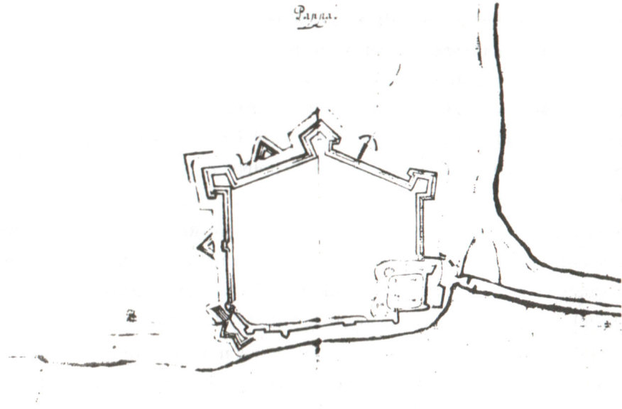 Ground-plan of the Pápa castle in the Karlsruhe collections from 1667 A pápai vár alaprajza a karlsruhei gyűjteményekben 1667-ből